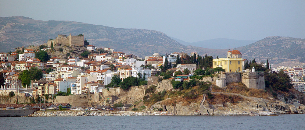 View of the old town of Kavala — acropolis, house of Mehmet Ali. Photography taken by Marsyas on 06/15/2003.